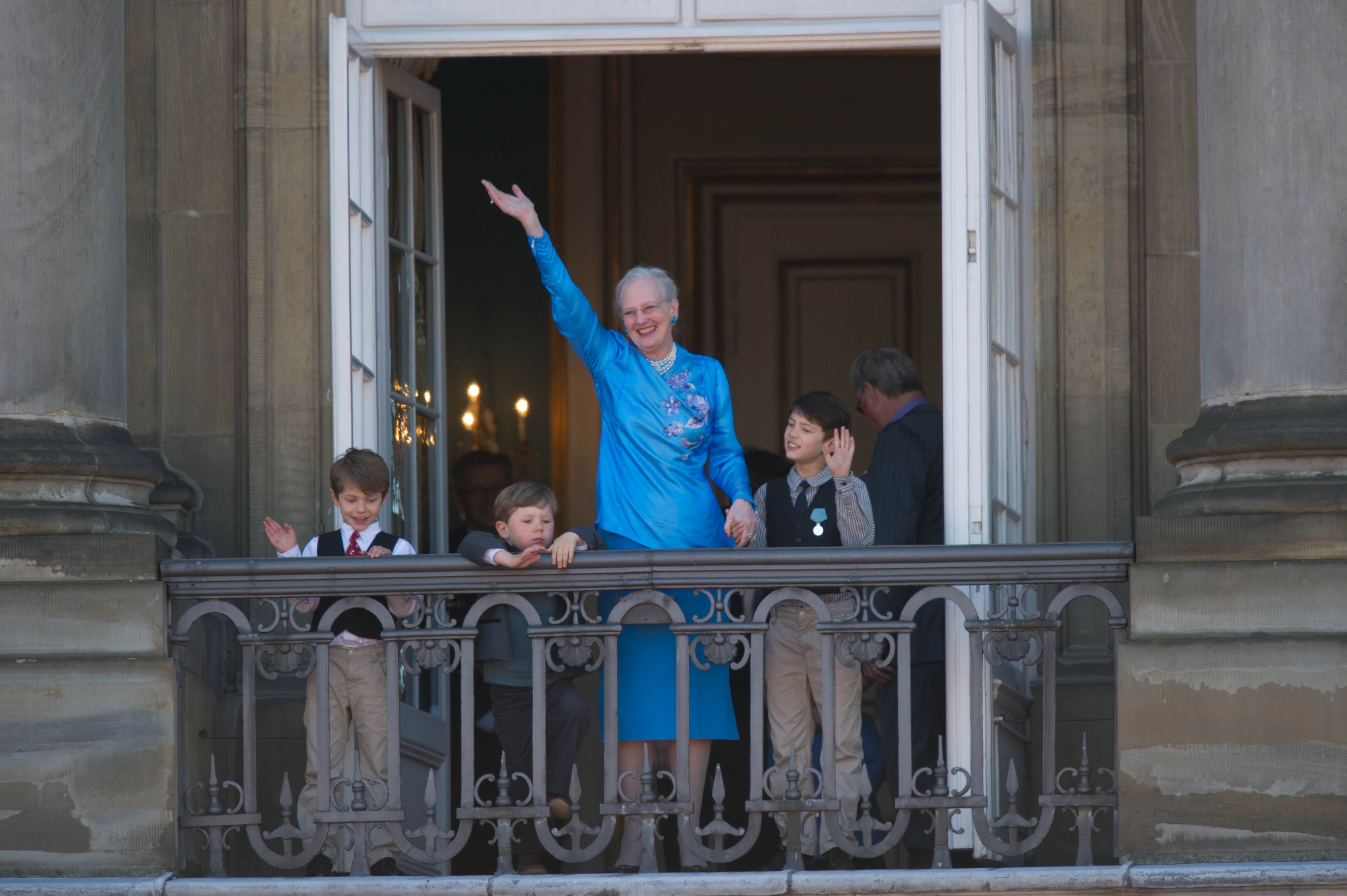 Picture showing Queen Margrethe II of Denmark and her grandsons on her 70th birthday, 16 April 2010